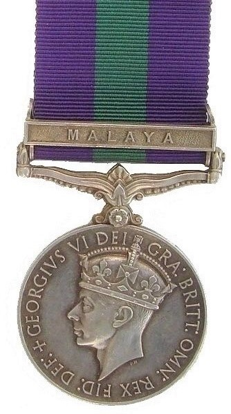 Army & RAF General Service Medal, George VI issue, with clasp for service in Malaya in the late 1940's.